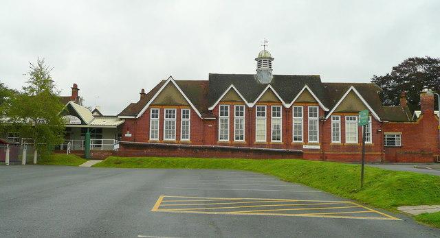 Ryefield Centre, Ross-on-Wye This was the old Grammar School which originally opened in 1912 - This is now a local authority-run social services outlet.